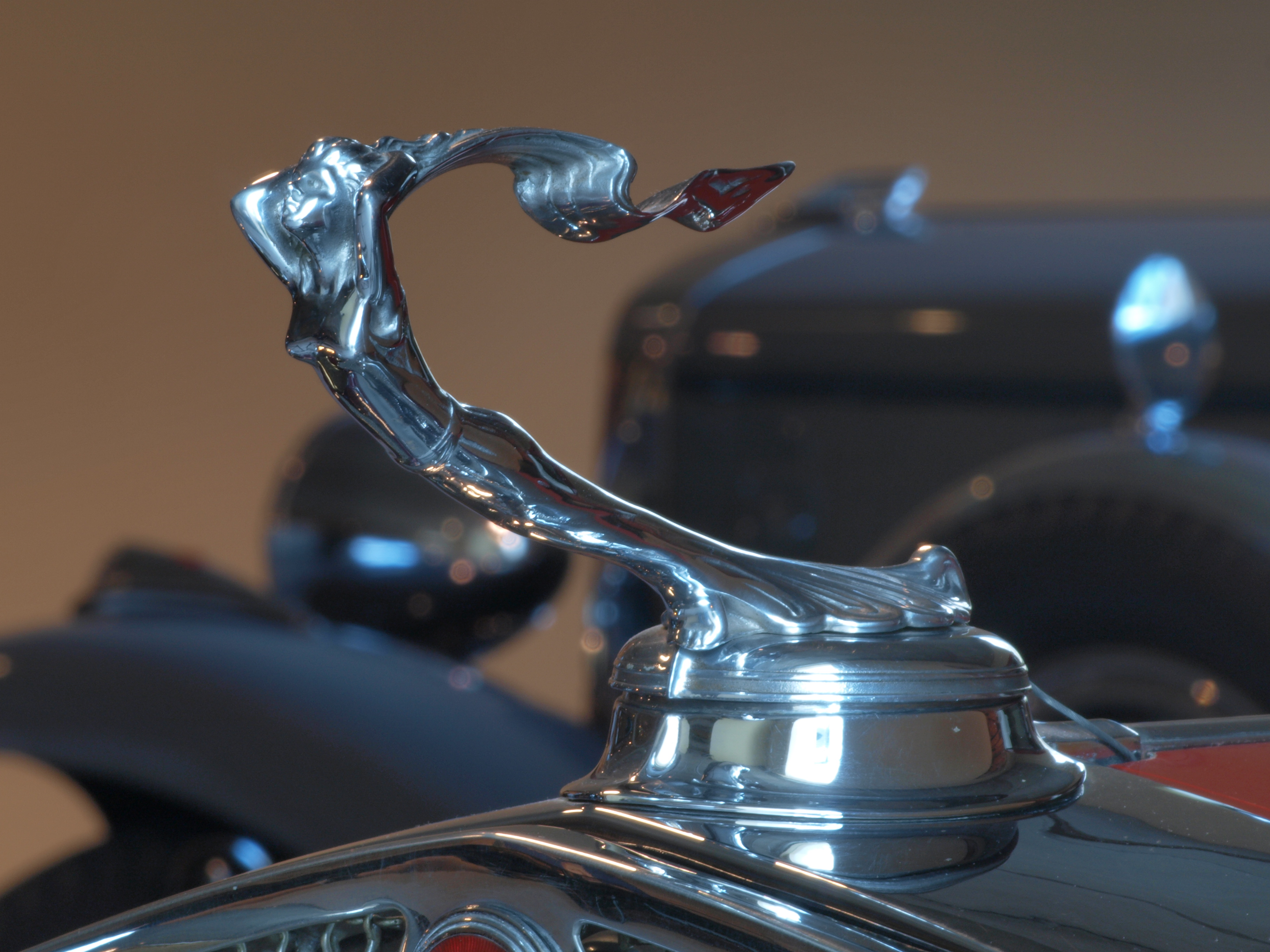 Photographed at the Louwman museum / Louwman Collection, The Netherlands.